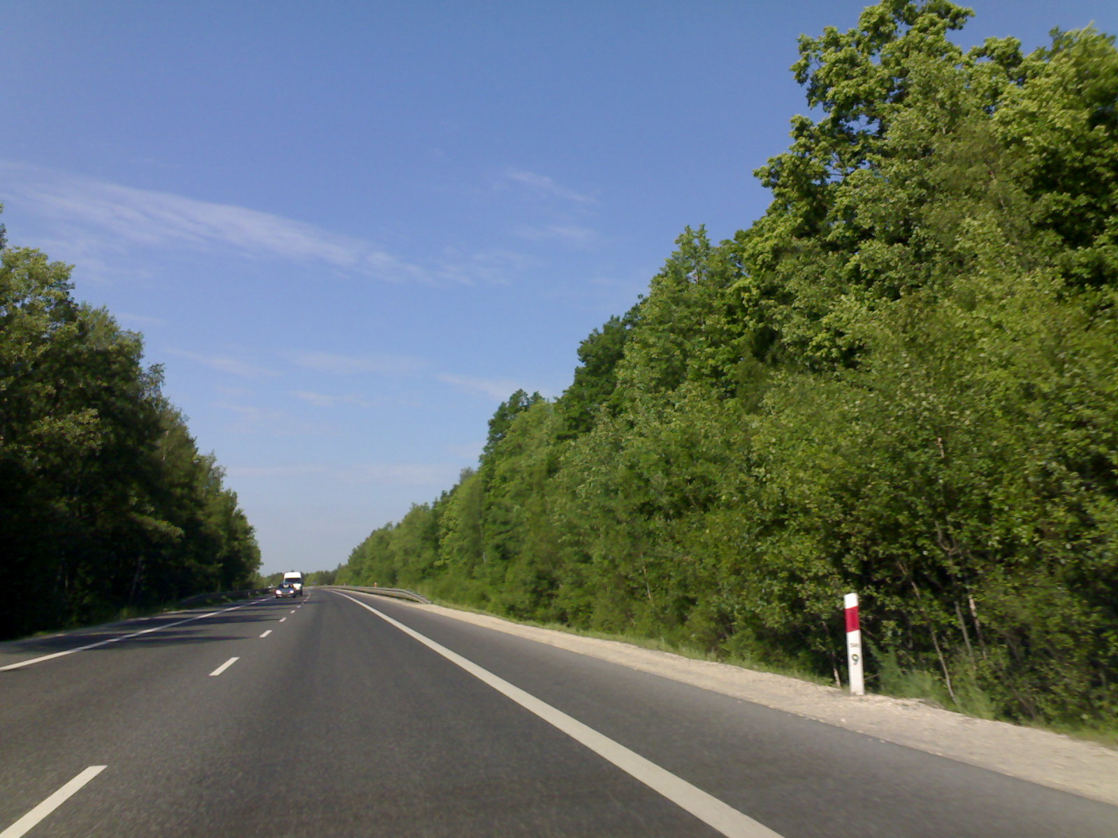 S7 Expressway (near Kielce, Poland)